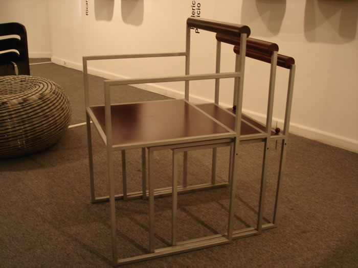 Chair of the Argentine industrial designer Ricardo Blanco showed in the Centro Cultural Borges in Buenos Aires.